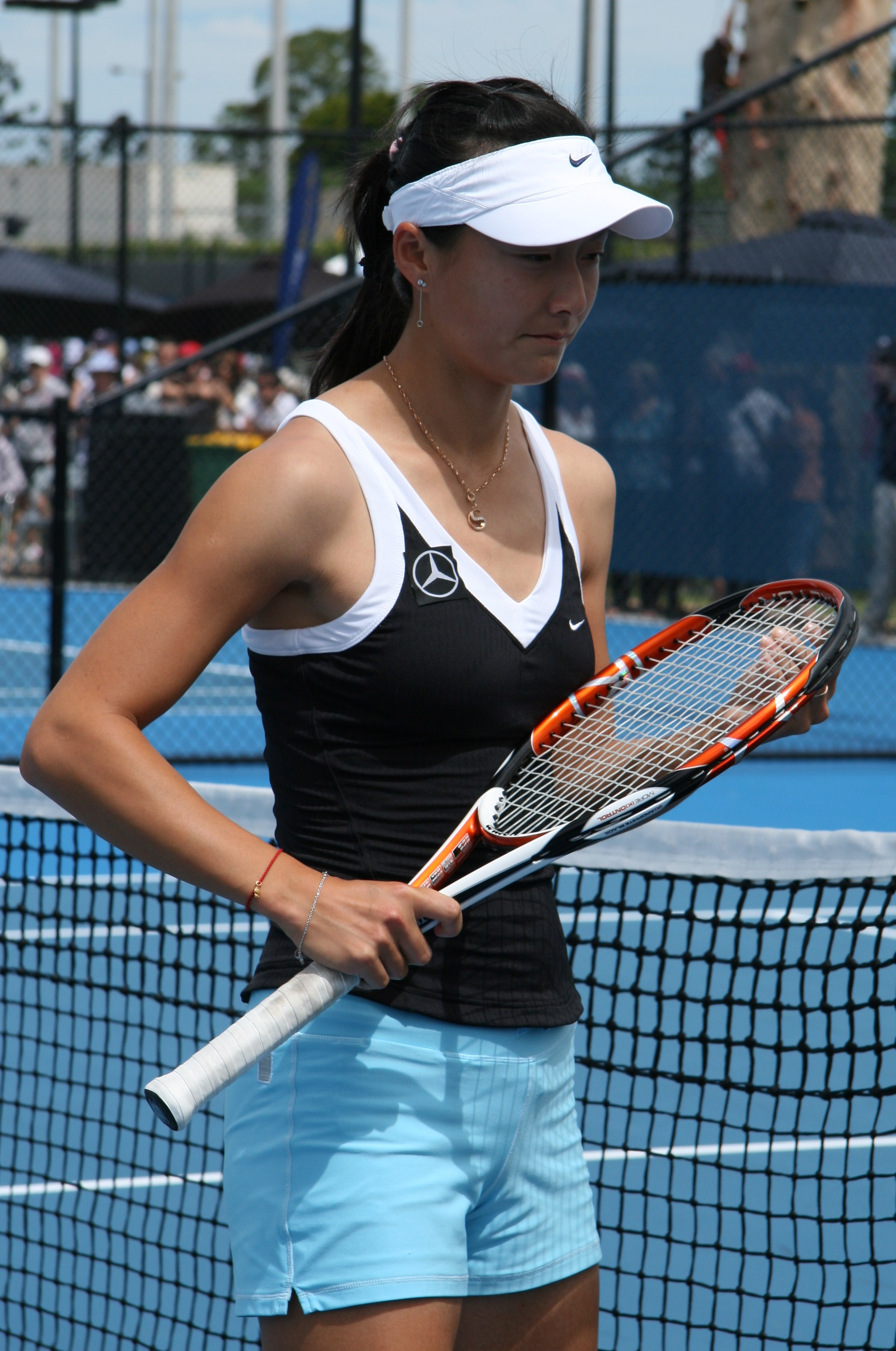 Yan Zi at 2009 Brisbane International, Brisbane, Australia.